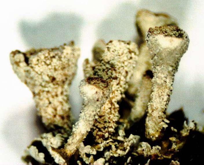 Cladonia carneola (Fr.) Fr., 1831 Photograph of a herbarium specimen taken through a dissecting microscope (x10) showing yellow-green, sorediate pixie-cups. Cladonia carneola was growing on a rock off Kelley Point Road in Jonesport, Washington County, Maine, USA (Lat. 44o31.9' N, Long. 67o34.5' W). Collected by E.C. Uebel, and identified by Dr. David H.S. Richardson (No. U-172, 14 Jun 2001).